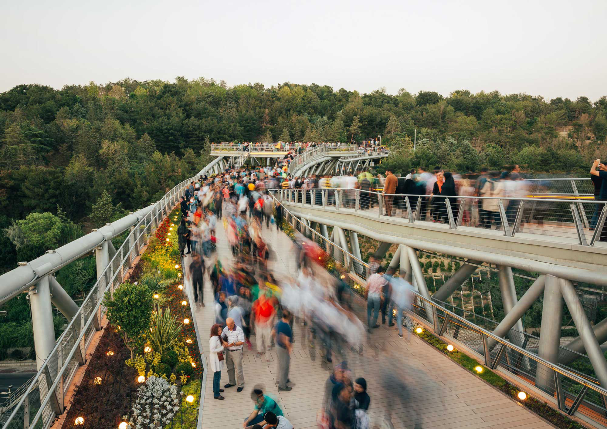 people on Tabiat Pedestrian Bridge